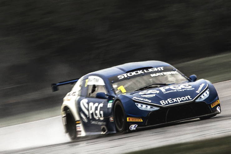 Erik Mayrink - Stock Light 2019